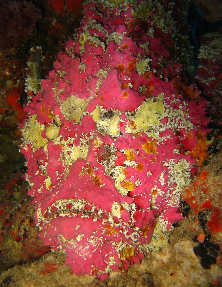 Portrait of a Reef Stonefish (Synanceia verrucosa). Steve's Bommie, Ribbon Reefs, Great Barrier Reef